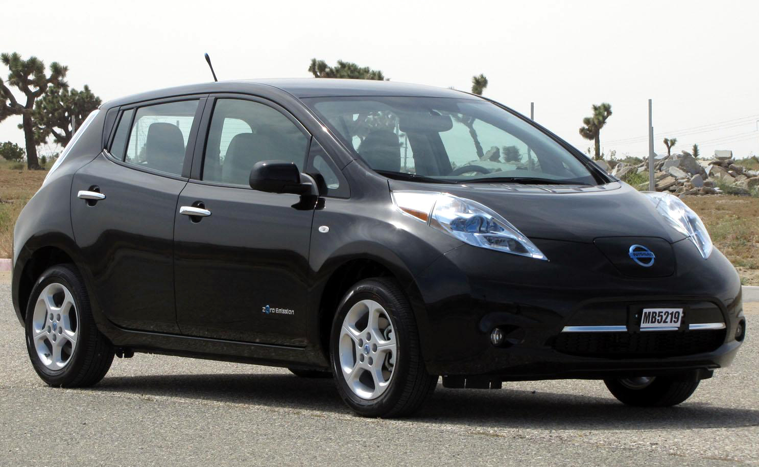 2011 Nissan Leaf photographed in USA.